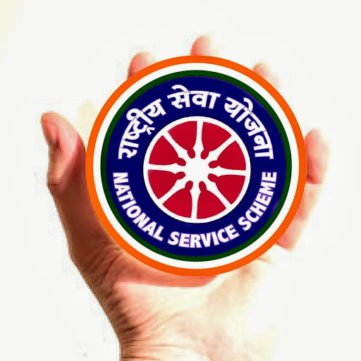 NSS HAND LOGO